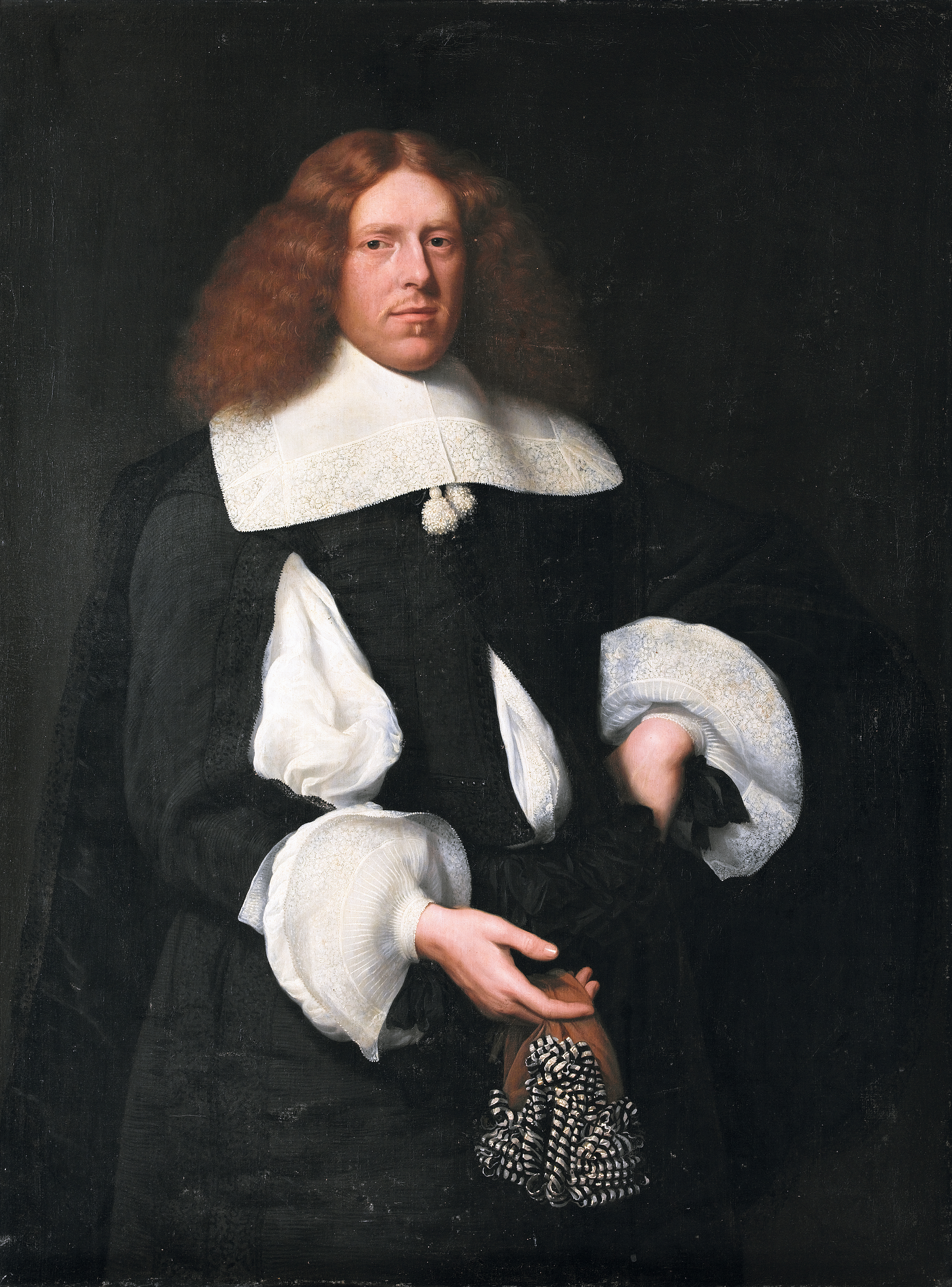 Portrait of a 33 years old man